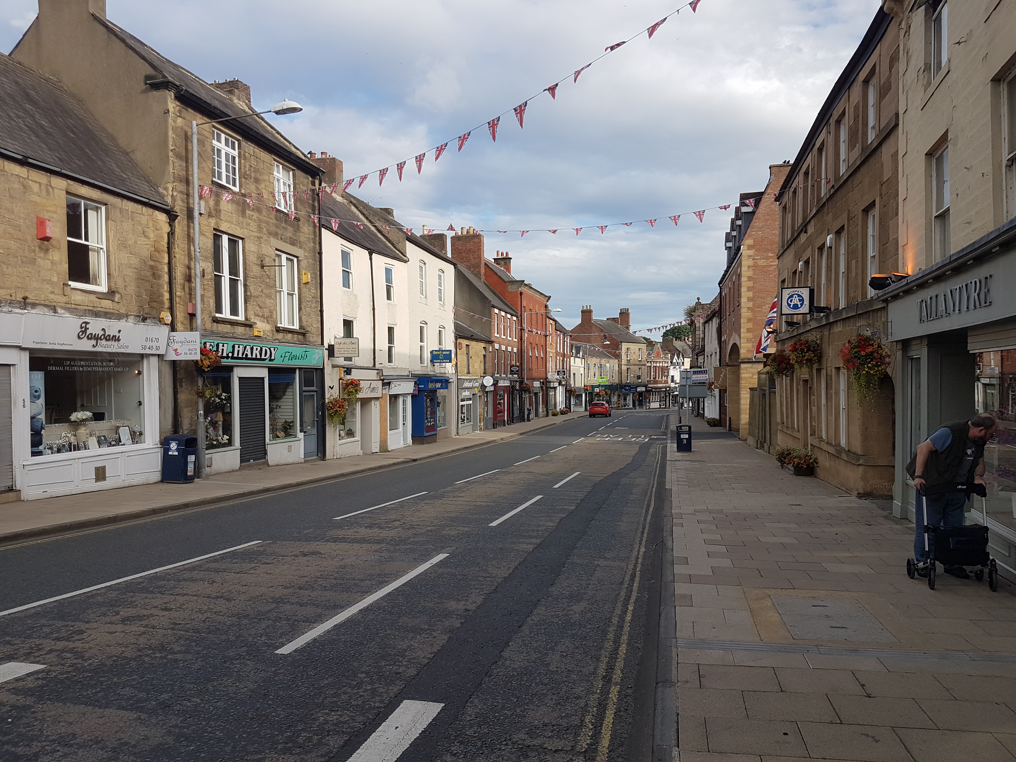 Town centre of Morpeth, Northumberland